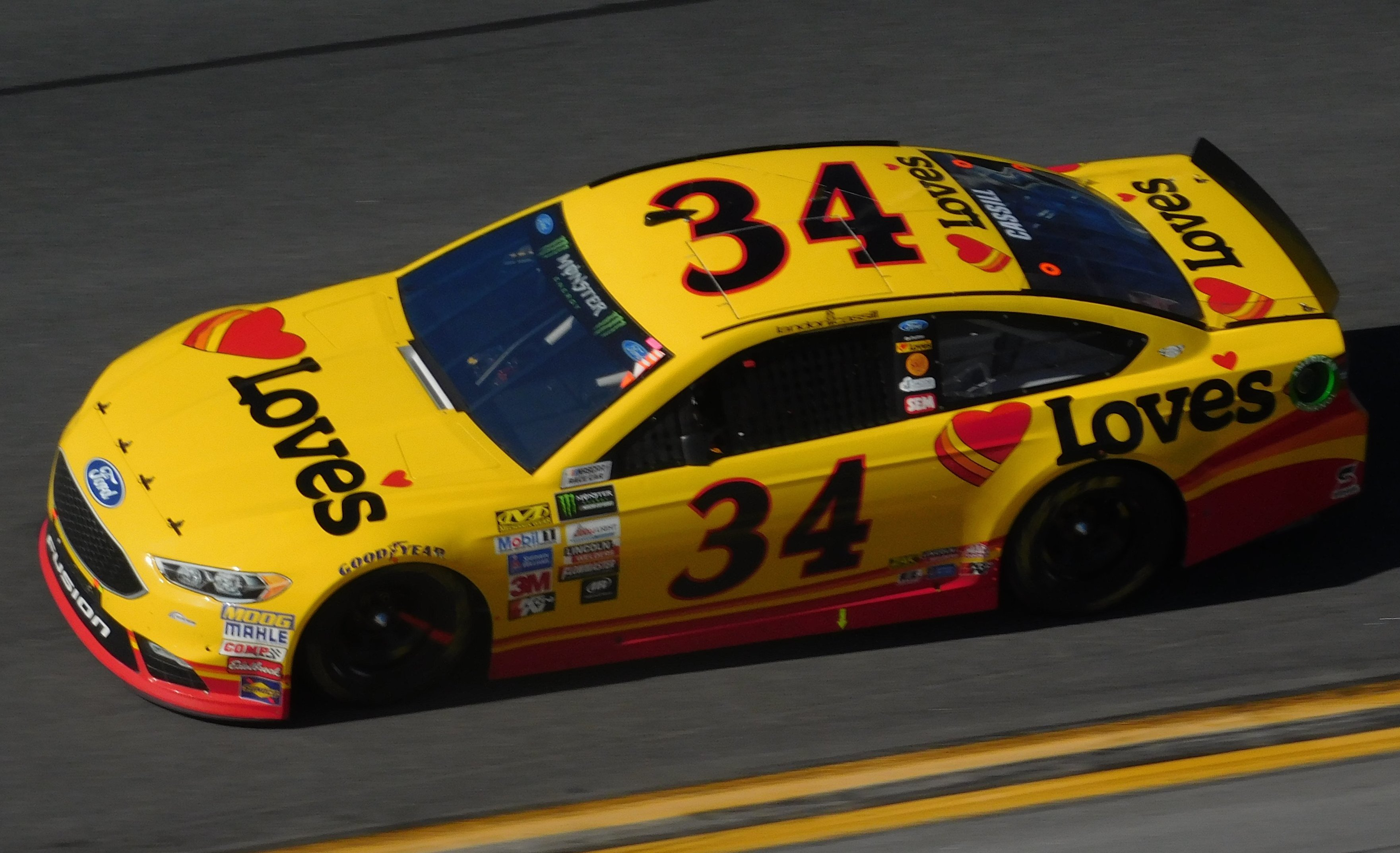 Landon Cassill's No. 34 Love's Travel Stops Ford at Daytona International Speedway in 2017